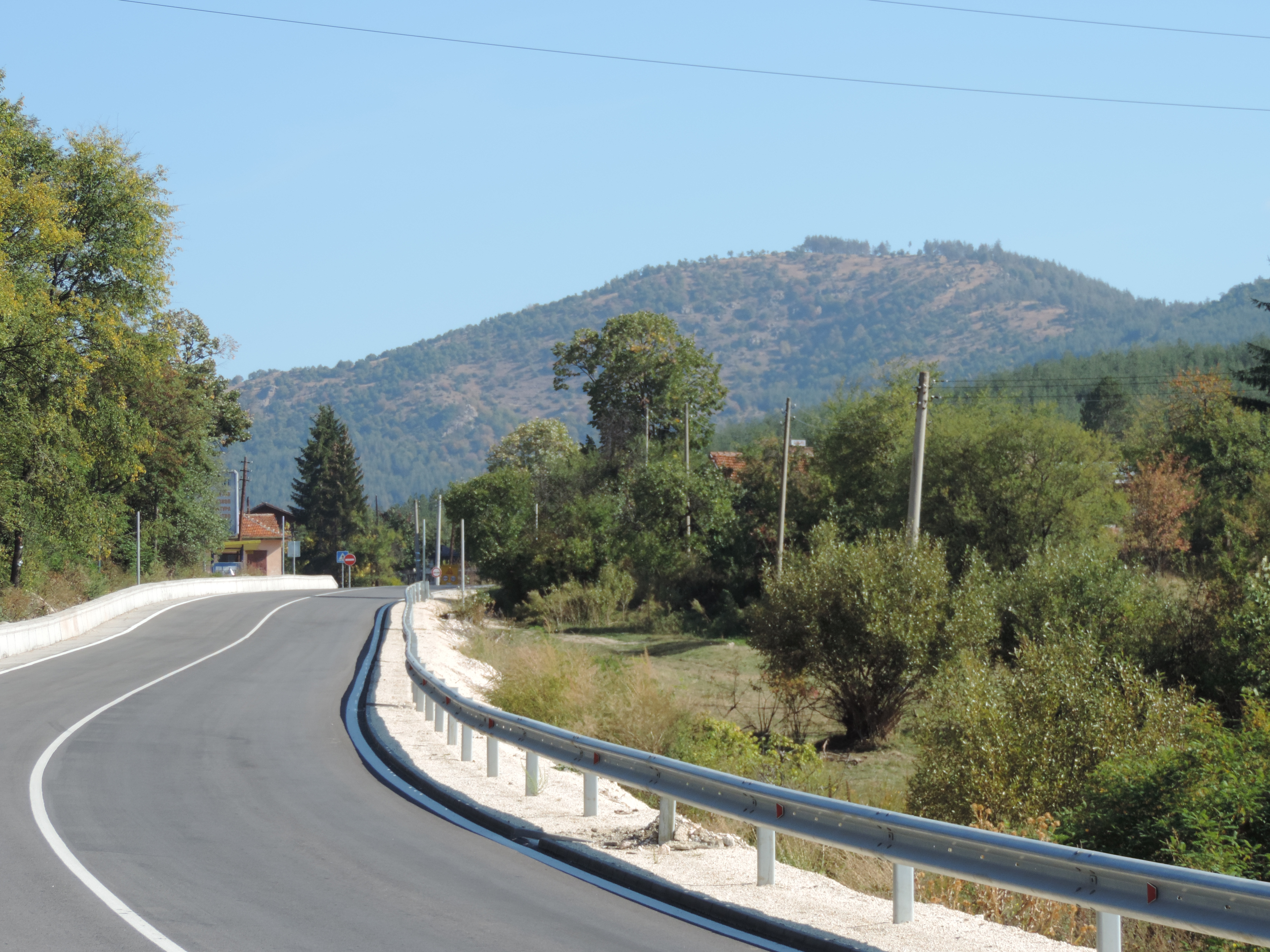 Road 84, Bulgaria